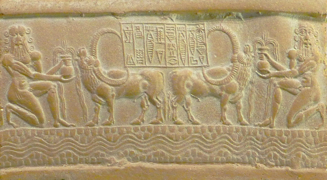 Cylinder seal n°24.